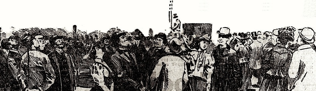 Crowd in Sacramento gazing mystery airship 1896 (mirrored)